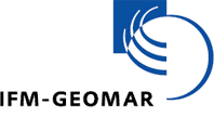 Logo of IFM-GEOMAR